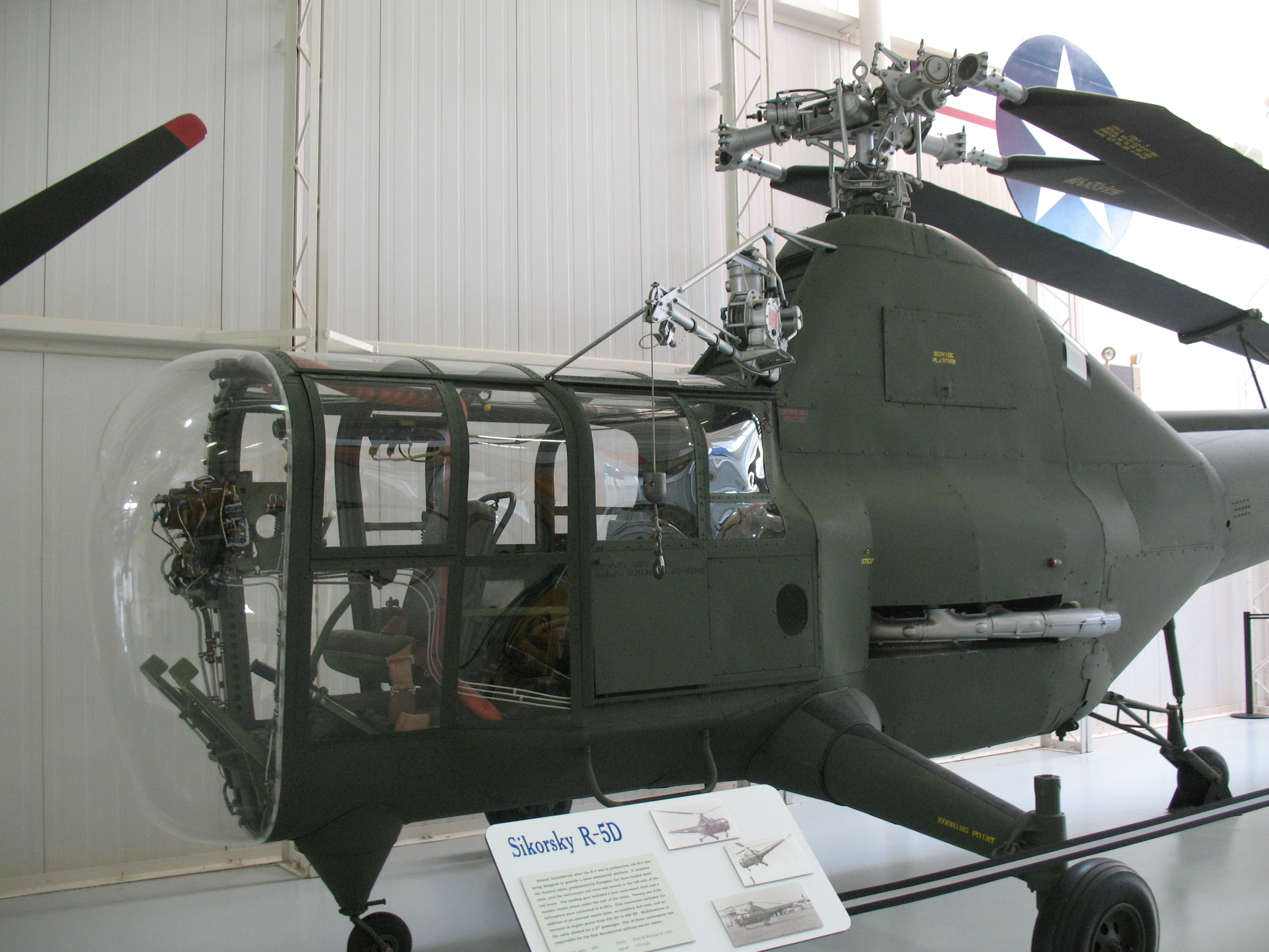 "Almost immediately after the R-4 was in production, the R-5 was being designed to provide a more substantial platform. It retained the forward cabin, predominantly Plexiglas, the three-bladed main rotor, and the anti-torque tail rotor was moved to the left side of the tail boom. The landing gear included a bent nose-wheel strut and a smaller rocker wheel under the rear of the cabin. Twenty-one R-5A helicopters were converted to R-5D's [sic]. This conversion included the addition of an external rescue hoist, an auxiliary fuel tank, and an increase in engine power from 450 HP to 600 HP. Modifications in the cabin allowed for a 2nd passenger. One of these conversions was responsible for the first documented military sea-air rescue." from placard at the Army Aviation Museum